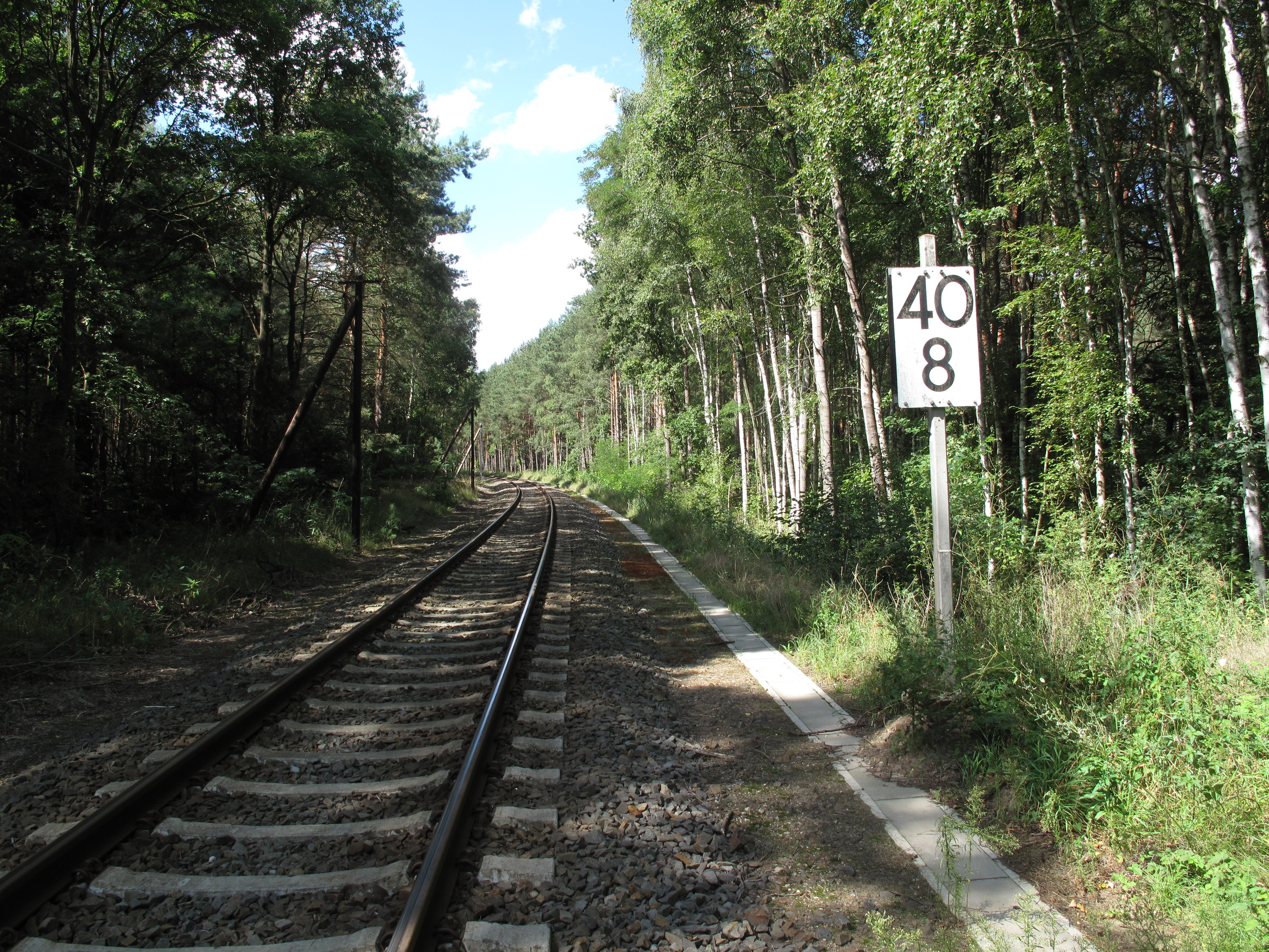 Railway Königs Wusterhausen–Grunow in the Naturschutzgebiet Storkower Kanal. The „Naturschutzgebiet Storkower Kanal “ is a Naturschutzgebiet (protected area) and Natura 2000-area in the districts Oder-Spree and Dahme-Spreewald in Brandenburg, Germany. The area covers about 97 hectare and is situated in the Dahme-Heideseen Nature Park. It is nestled along the „Stahnsdorfer Fließ“ (little stream) and along the west part of the eponymous Storkower Kanal (water canal).